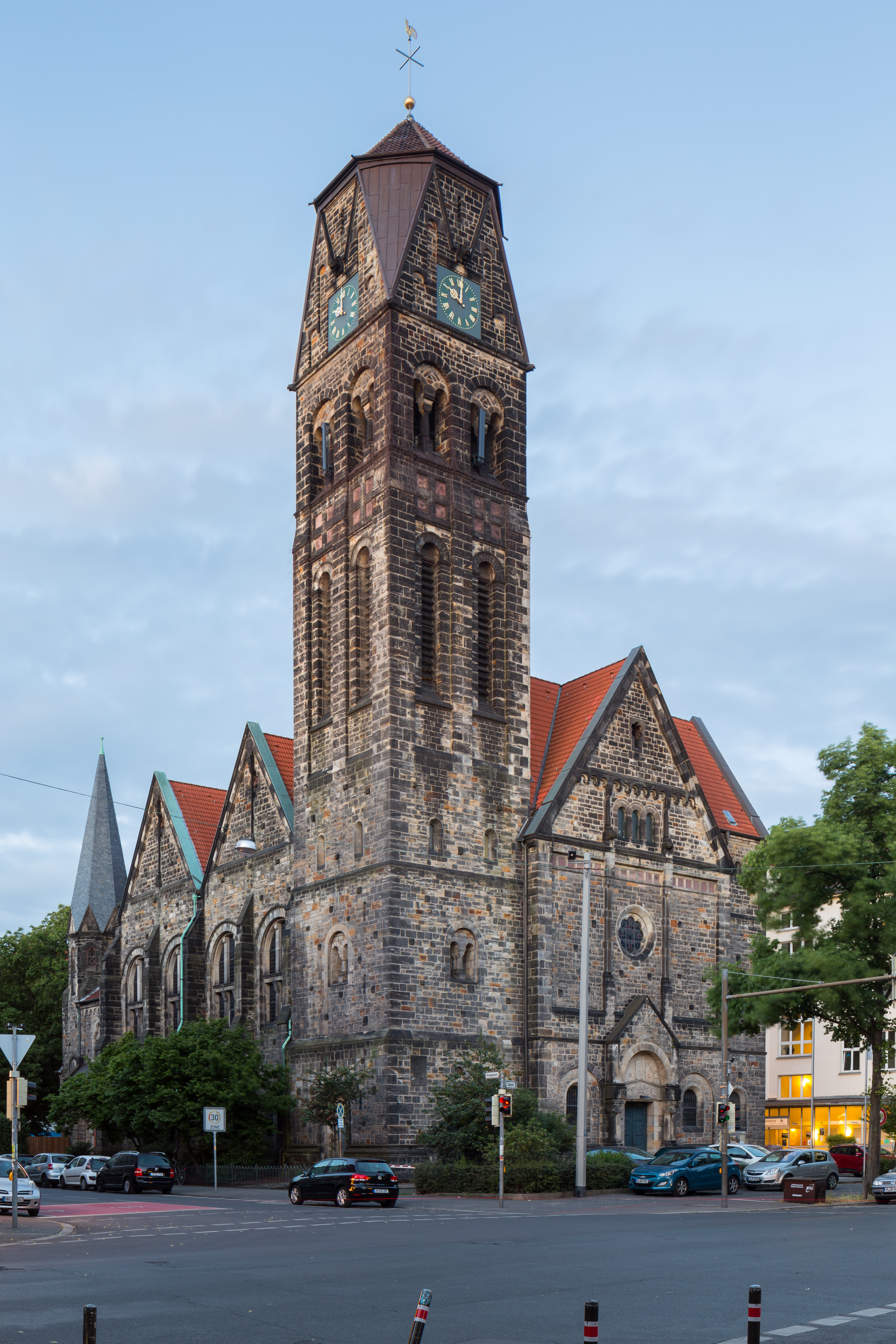 Nazareth church located at Sallstrasse and Krausenstrasse in Suedstadt quarter of Hannover, Germany.